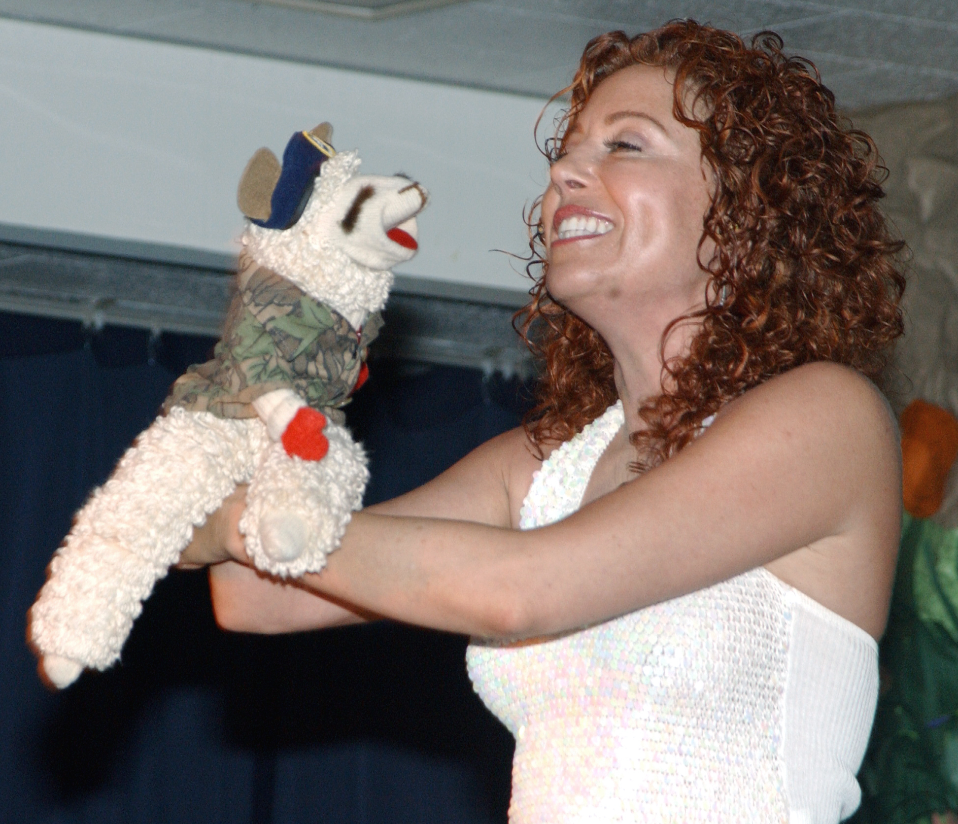 KADENA AIR BASE, Japan -- Mallory Lewis and Lamb Chop perform at Bob Hope Primary School here April 14. Lamb Chop sported a military uniform and security forces beret to show support to servicemembers. Ms. Lewis is the daughter of the late Shari Lewis who created the famous sock puppet.